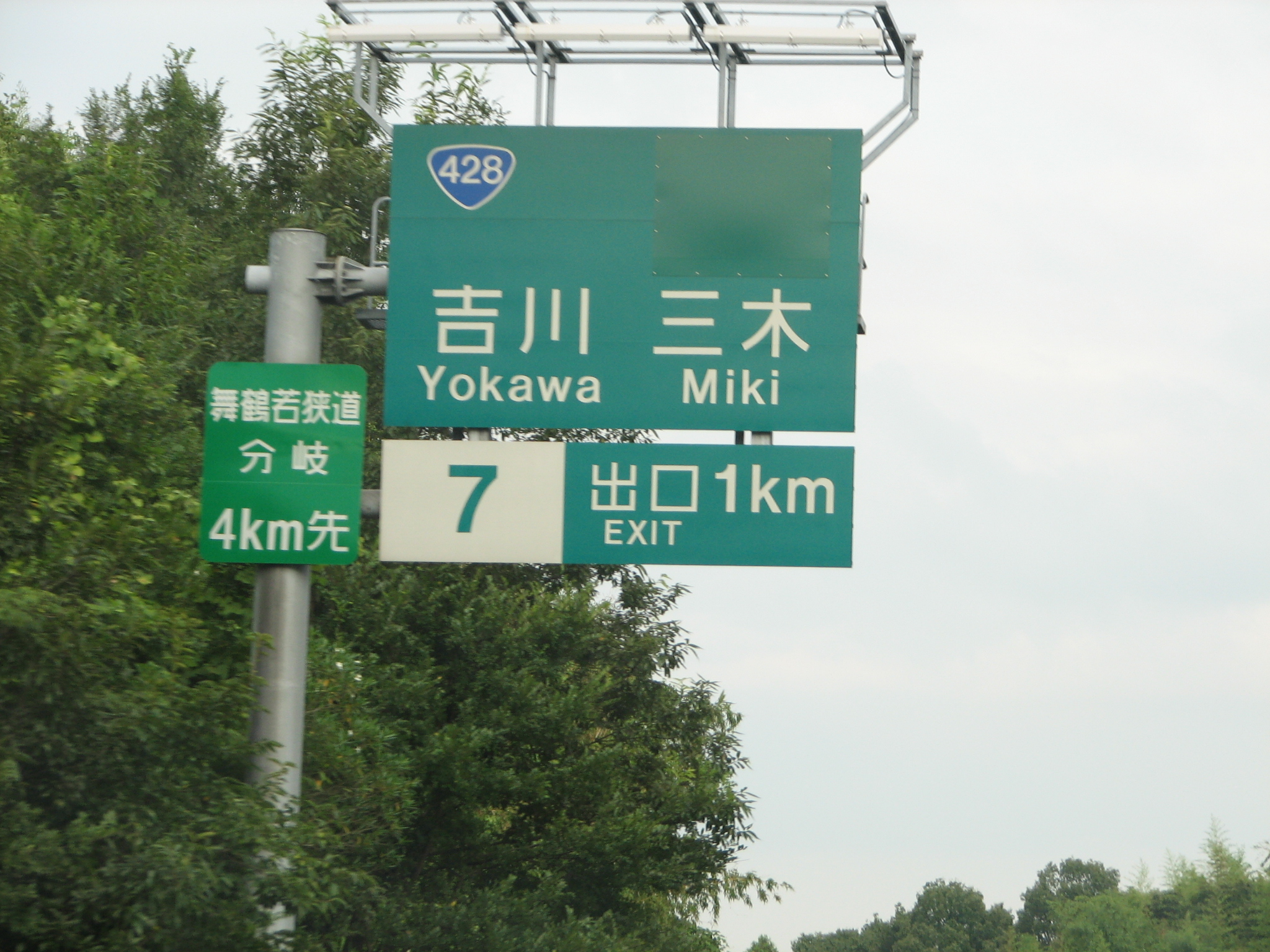 Yokawa IC